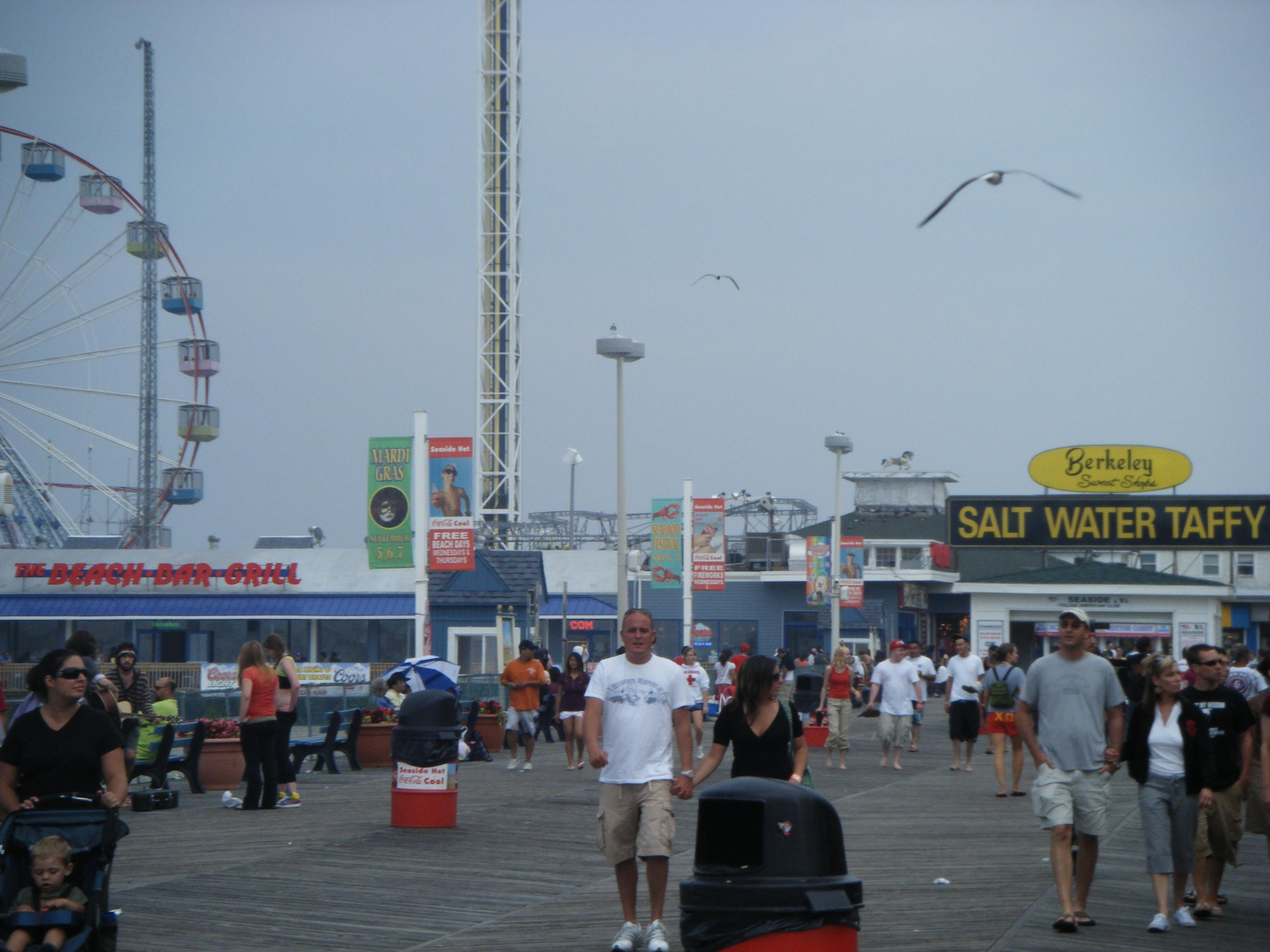 A view of the boardwalk in Seaside Heights, New Jersey looking south toward Funtown Pier